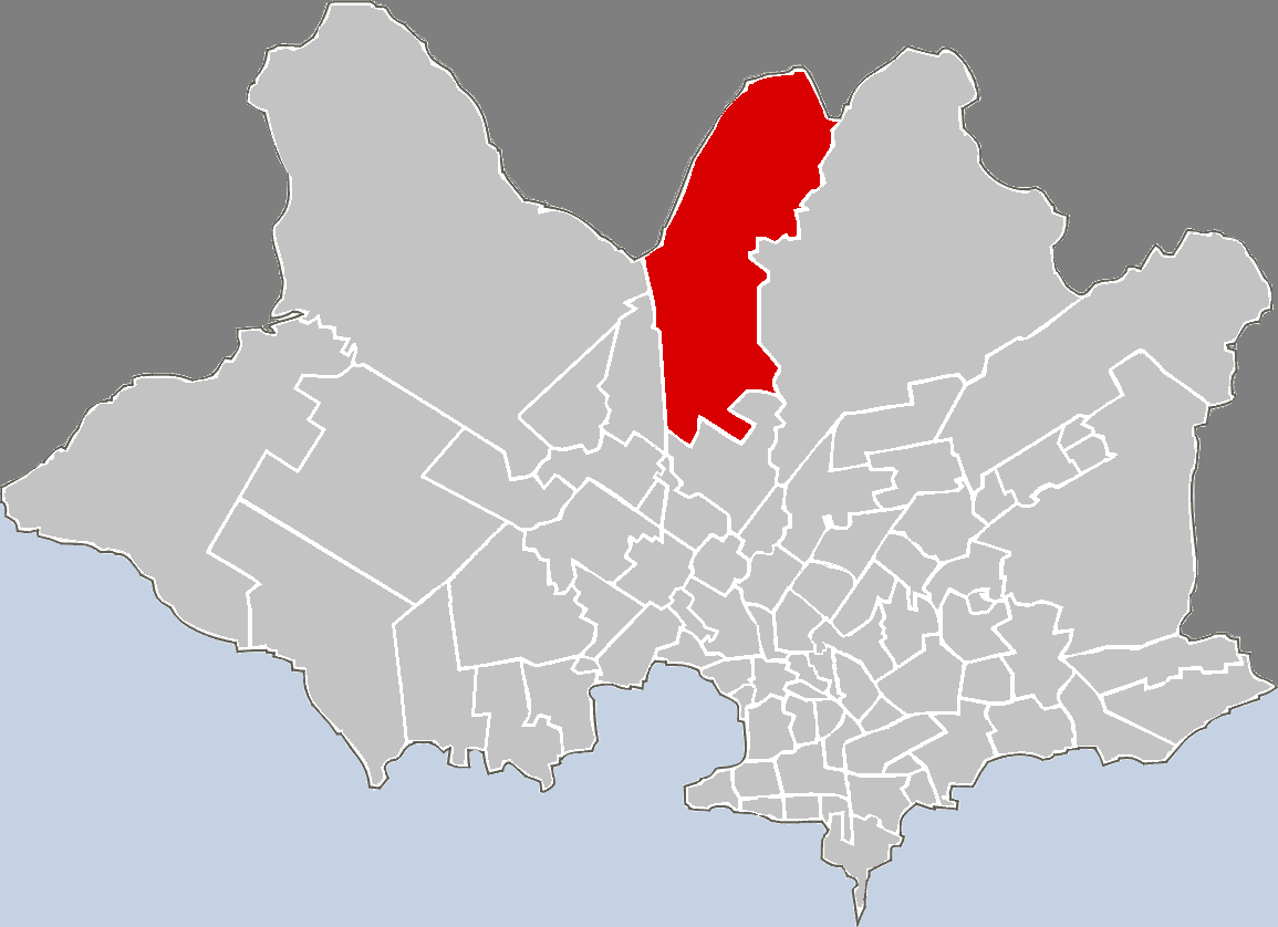 Map highlighting the given barrio in Montevideo.